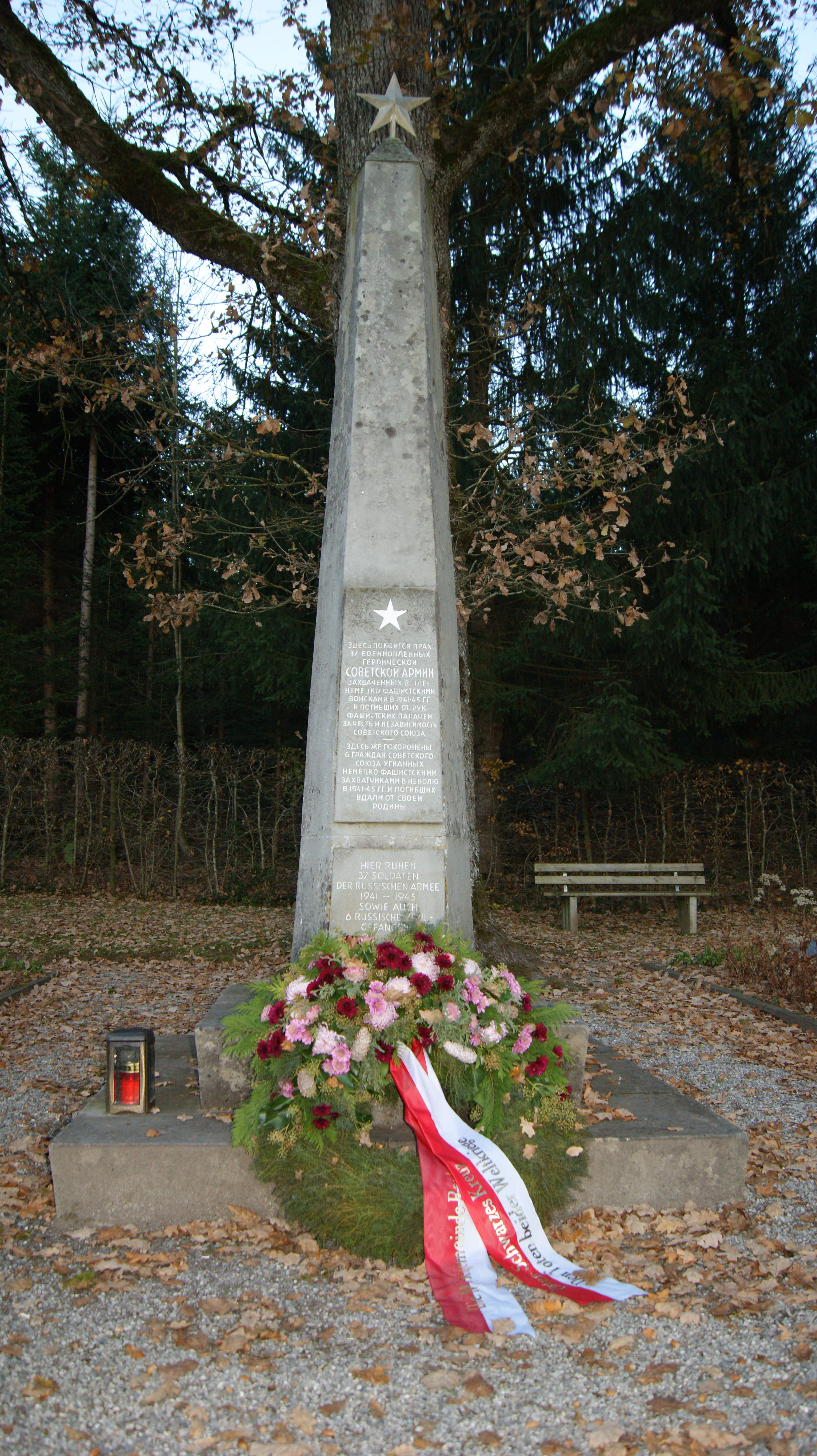 Cemetery and chapel Valduna in the municipality Rankweil in Vorarlberg, Austria. Russian cemetery. Obelisk.